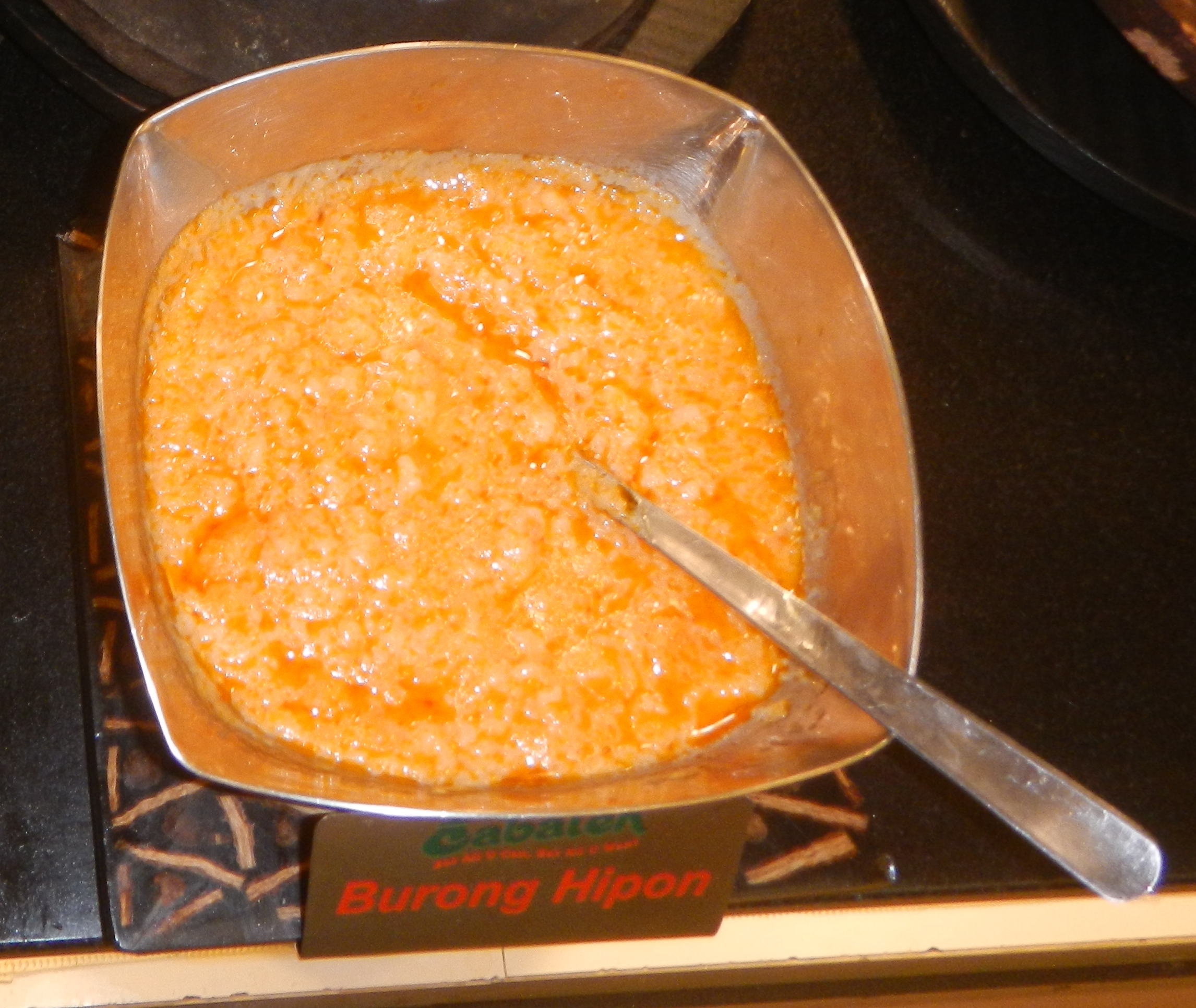 Burong Hipon (Balao-Balao) - Cabalen restaurants food products buffets in Bulacan Philippines